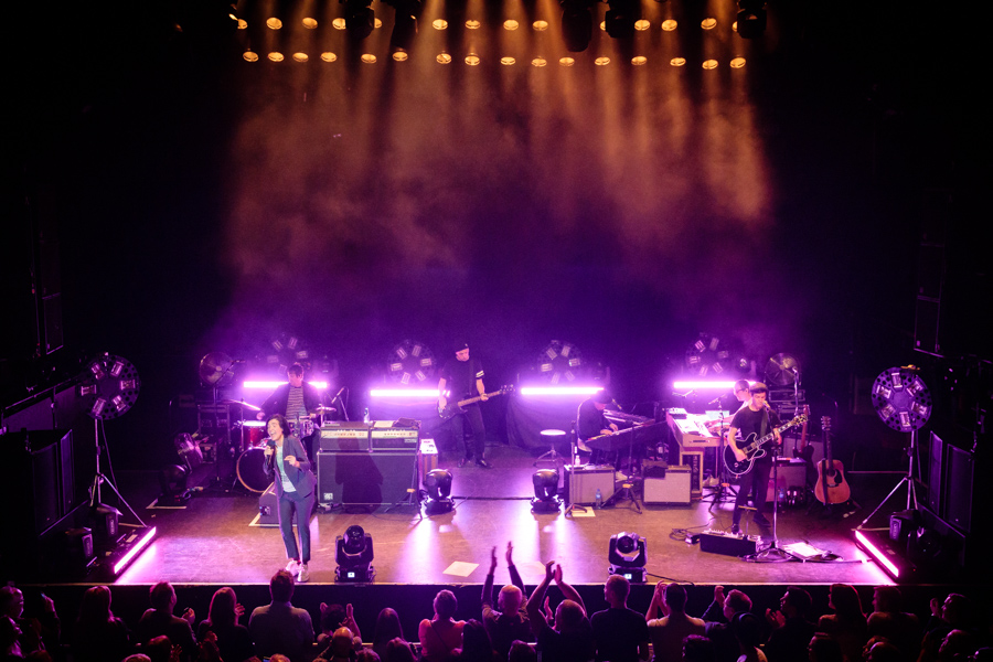 Texas live on stage at Rockefeller Music Hall. The concert took place on 24. September 2018 in Oslo. Lineup: Sharleen Spiteri (vocal) Johnny McElhone (bass guitar) Ally McErlaine (guitar) Eddie Campbell (keyboard) Ross McFarlane (drums) Michael Bannister (keyboard) Tony McGovern (guitar and vocal)